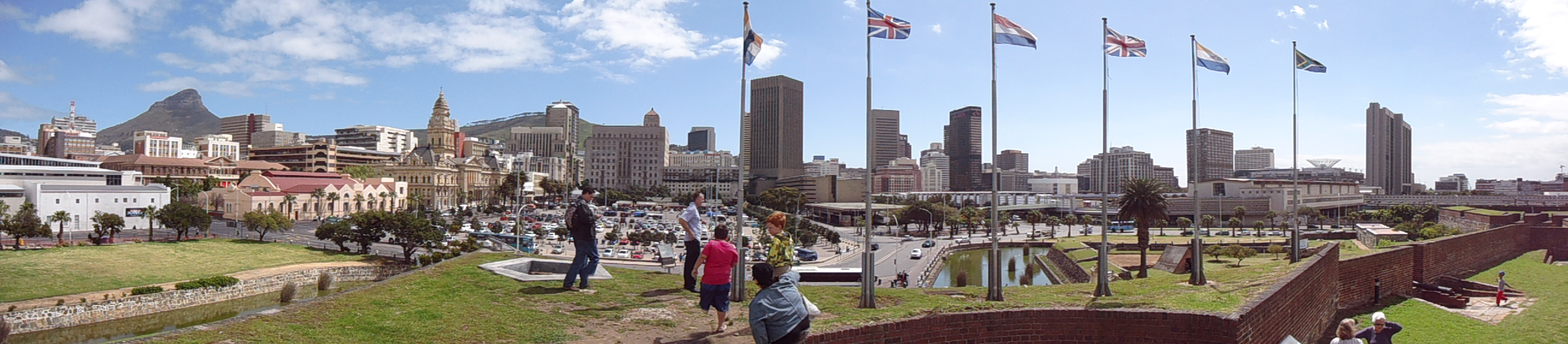 Castle of Good Hope, Cape Town, Western Cape. This media shows a South African Protected Site with SAHRA file reference 9/2/018/0056.